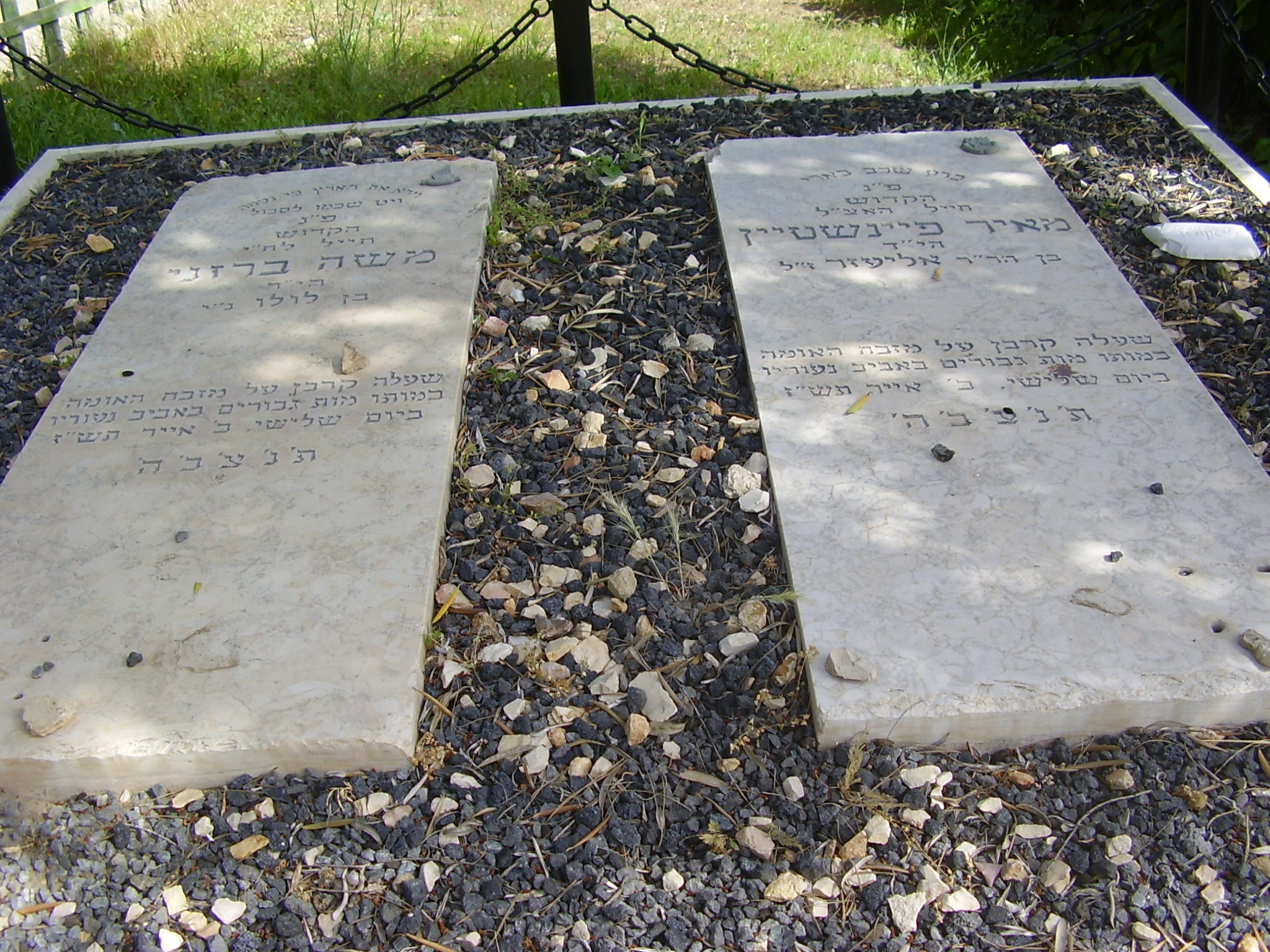 museum of the underground prisoners in jerusalem - original tombs of Feinstein and barazany whocommitted suicide in prison before the gallows virtue. They are buried on the Mount of Olives